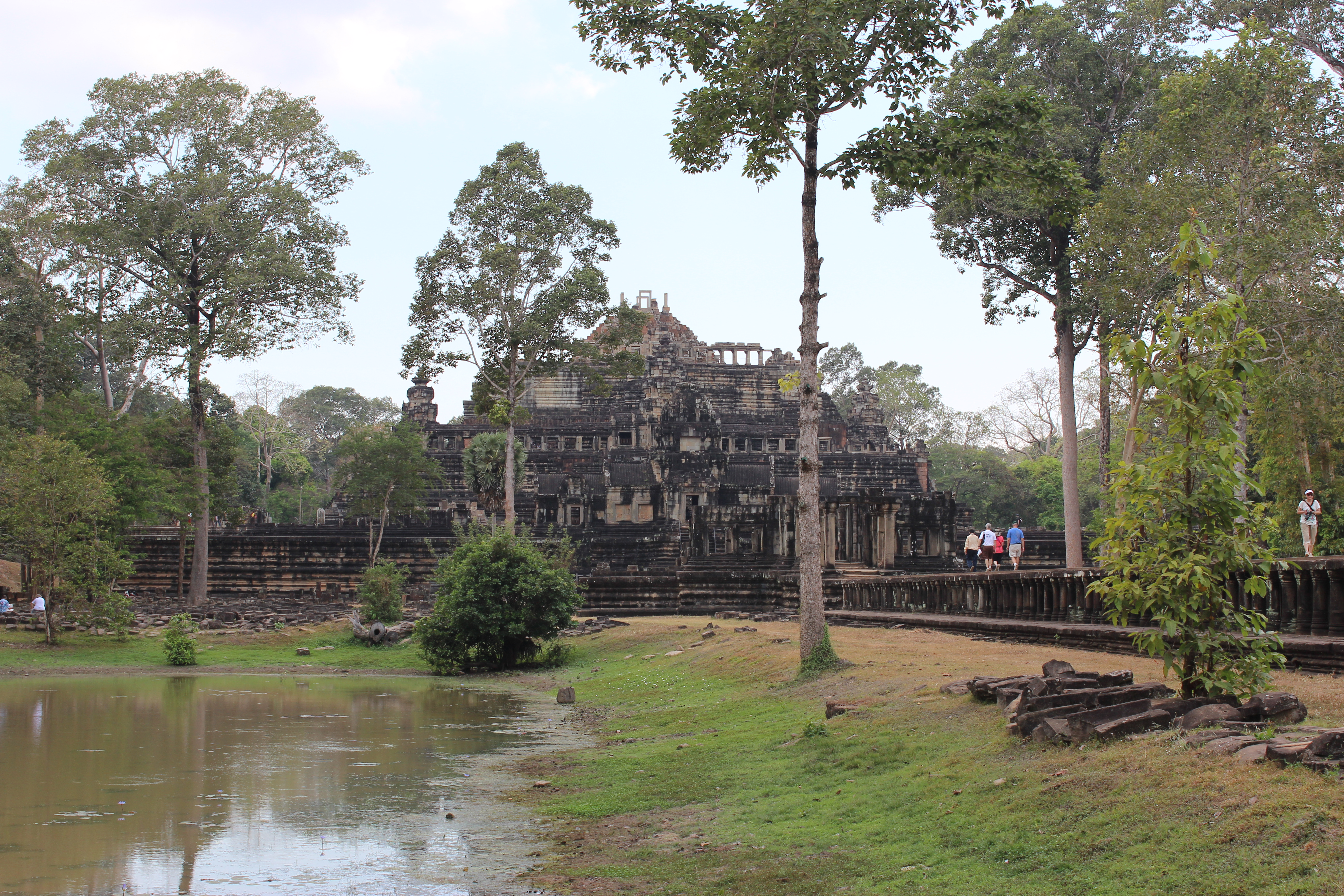 Baphuon temple, Angkor, Cambodia